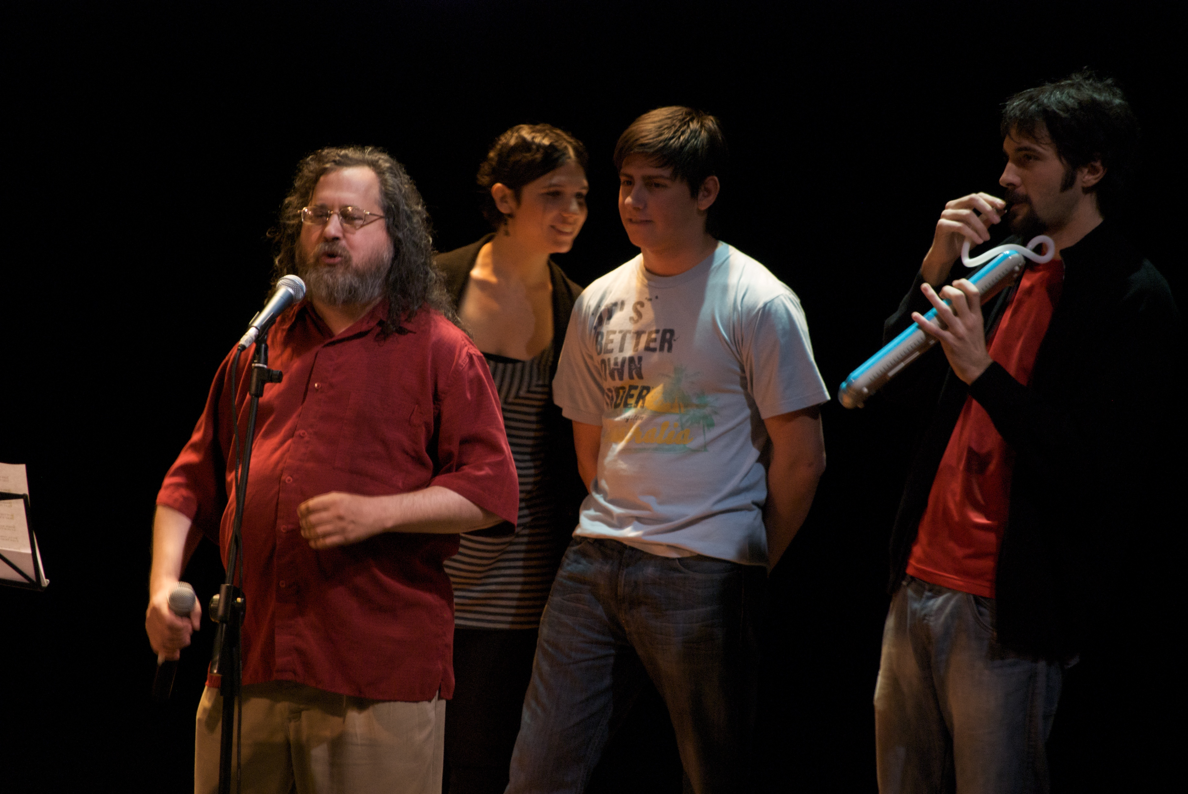 Richard Stallman signing the Free Software Song